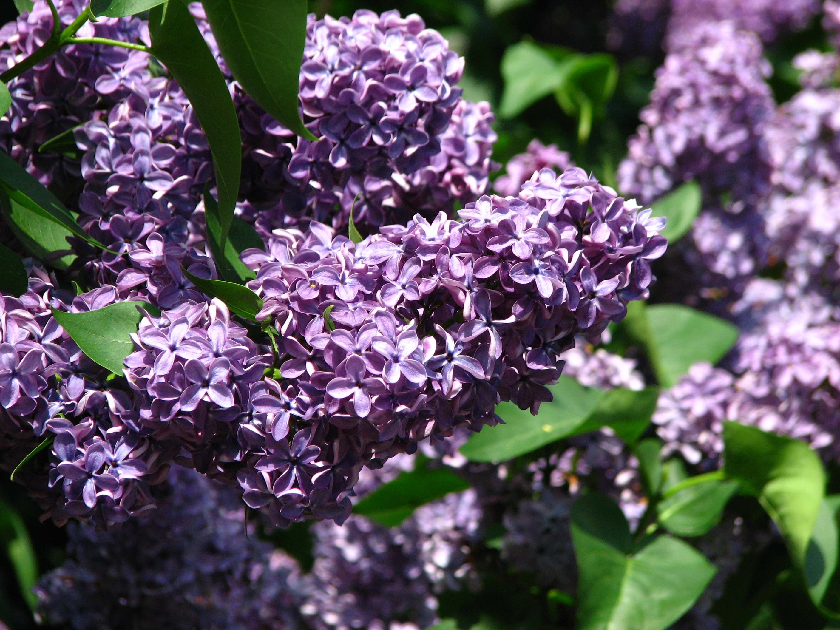 Syringa vulgaris 'Cavour'. Originator: Lemoine, 1910. From the collection of the Botanical Garden of Moscow State University (main area on the Sparrow Hills).